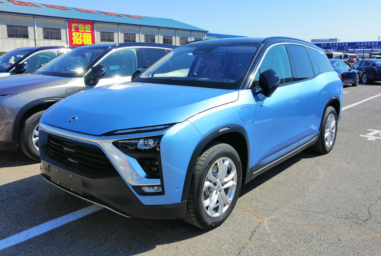 NIO ES8 photographed in Beijing, China.